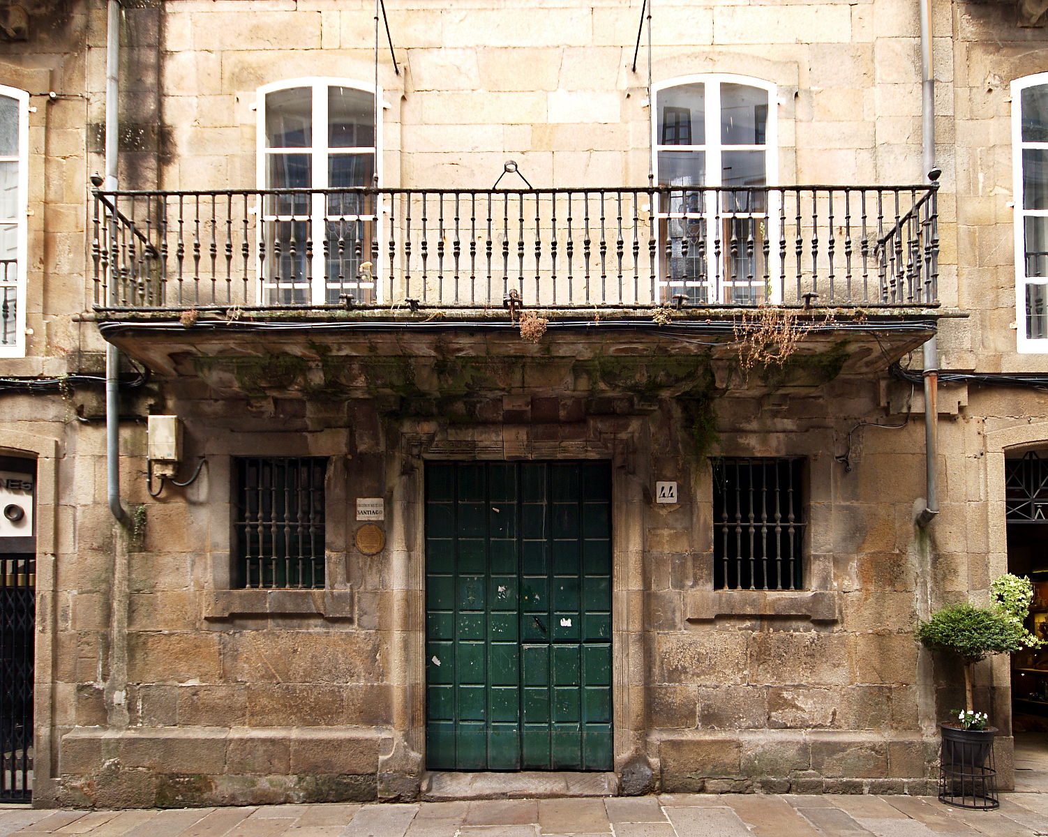 Pazo de Ramirás, also know as Pazo de Ramiranes; former Colexio dos Irlandeses